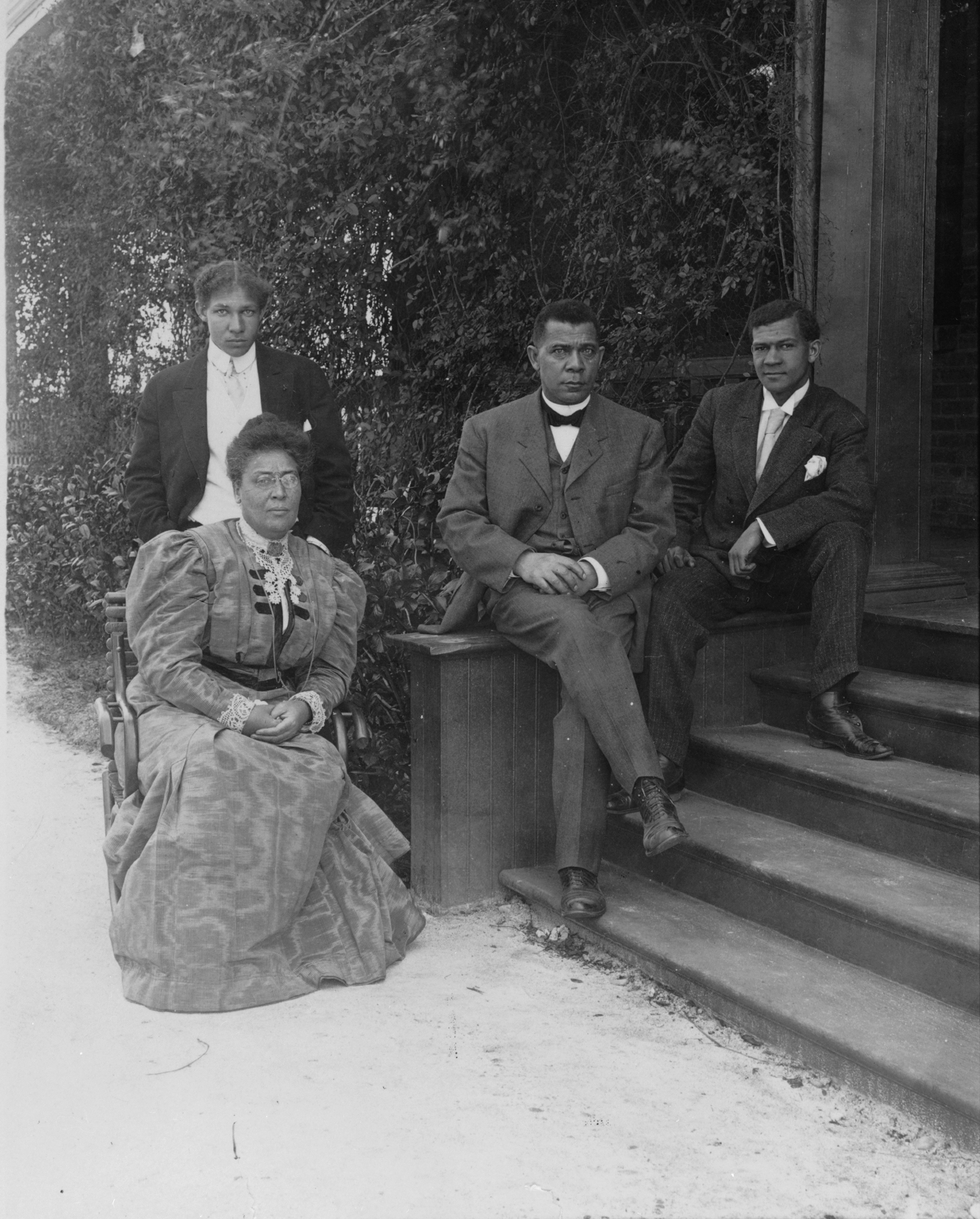 Via Library of Congress. See . Booker T. Washington, seated on steps of porch, with wife and two sons.